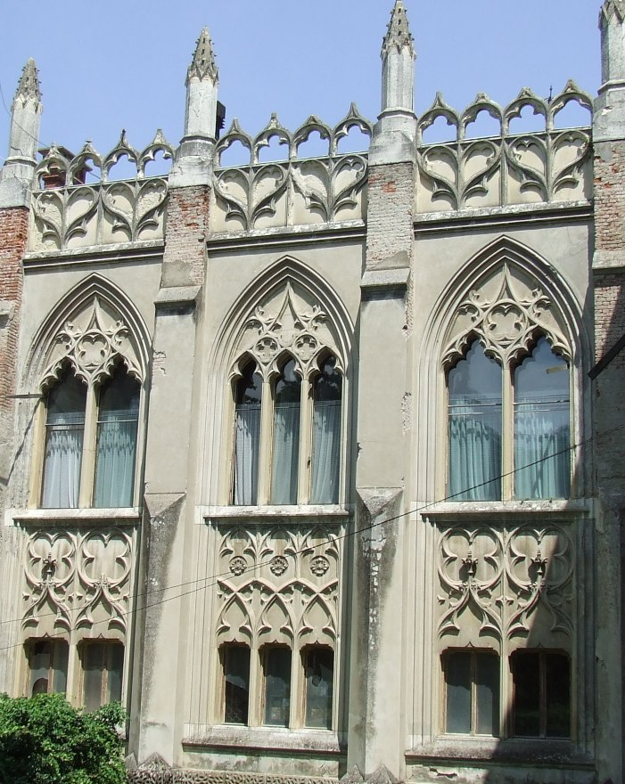 Carei Castle, Satu Mare County, Romania 01